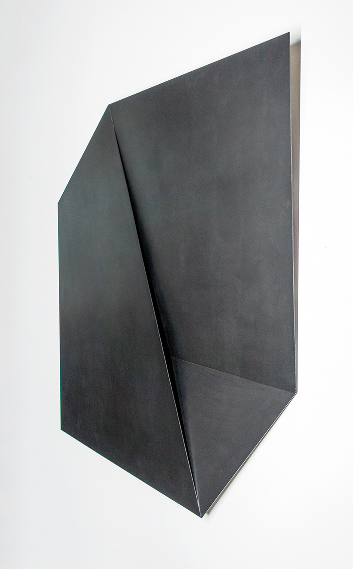 wall-sculpture, Metal-relief by Heiner Thiel, 1993